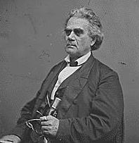 Elijah Hise, US Representative from Kentucky